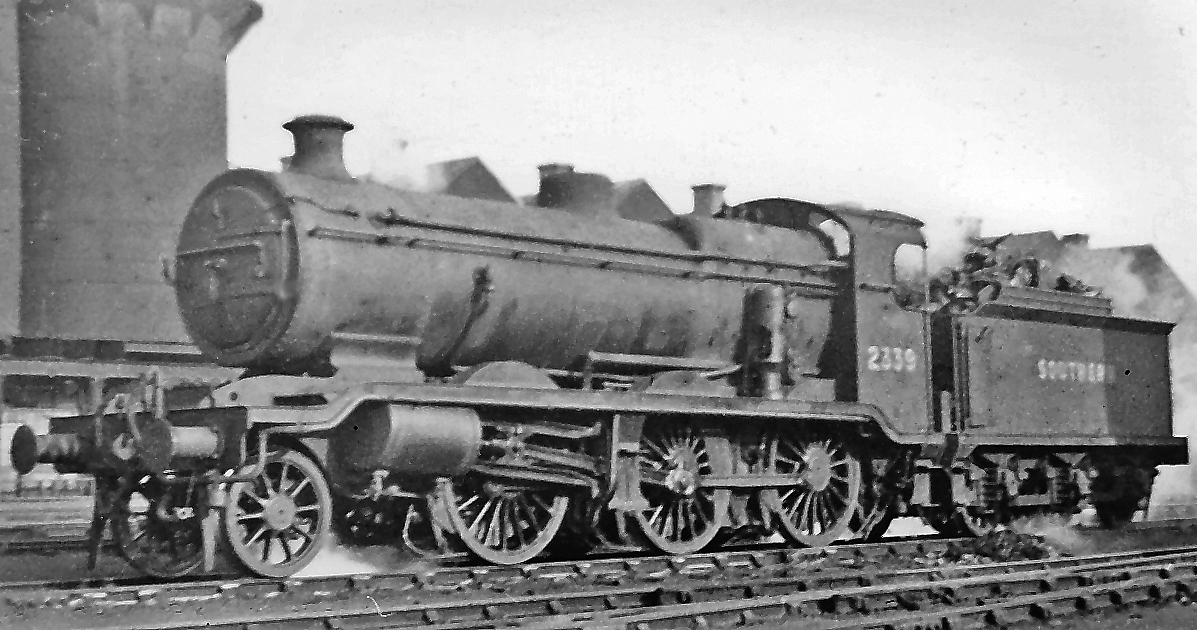 Ex-LB&SCR K class 2-6-0 at Brighton Locomotive Depot. R. Billinton K class 2-6-0 No. 2339 (built 3/14, withdrawn 11/62) is seen in March 1946 - well before Nationalisation. [One my very earliest photographs].